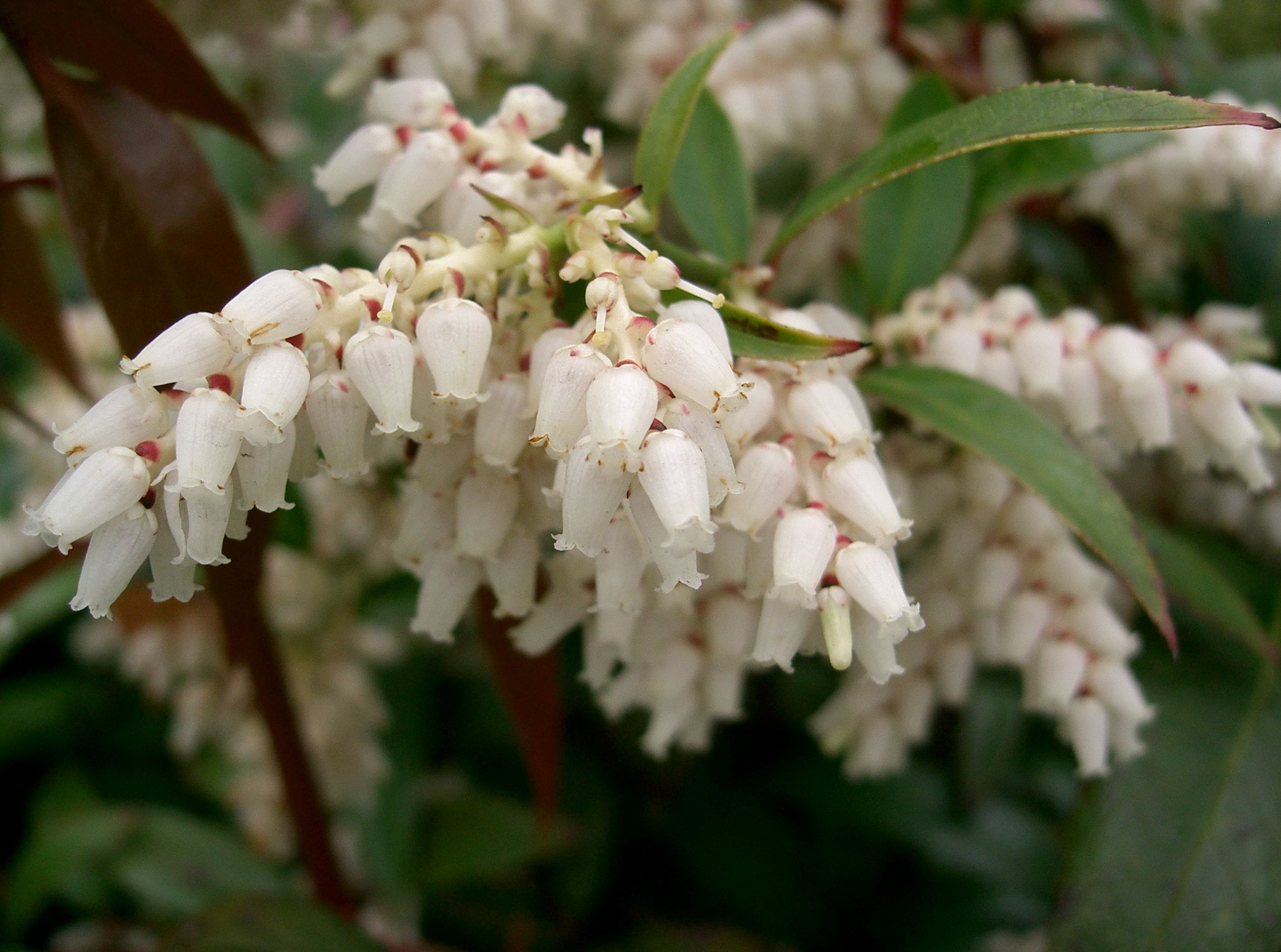 Leucothoe axillaris